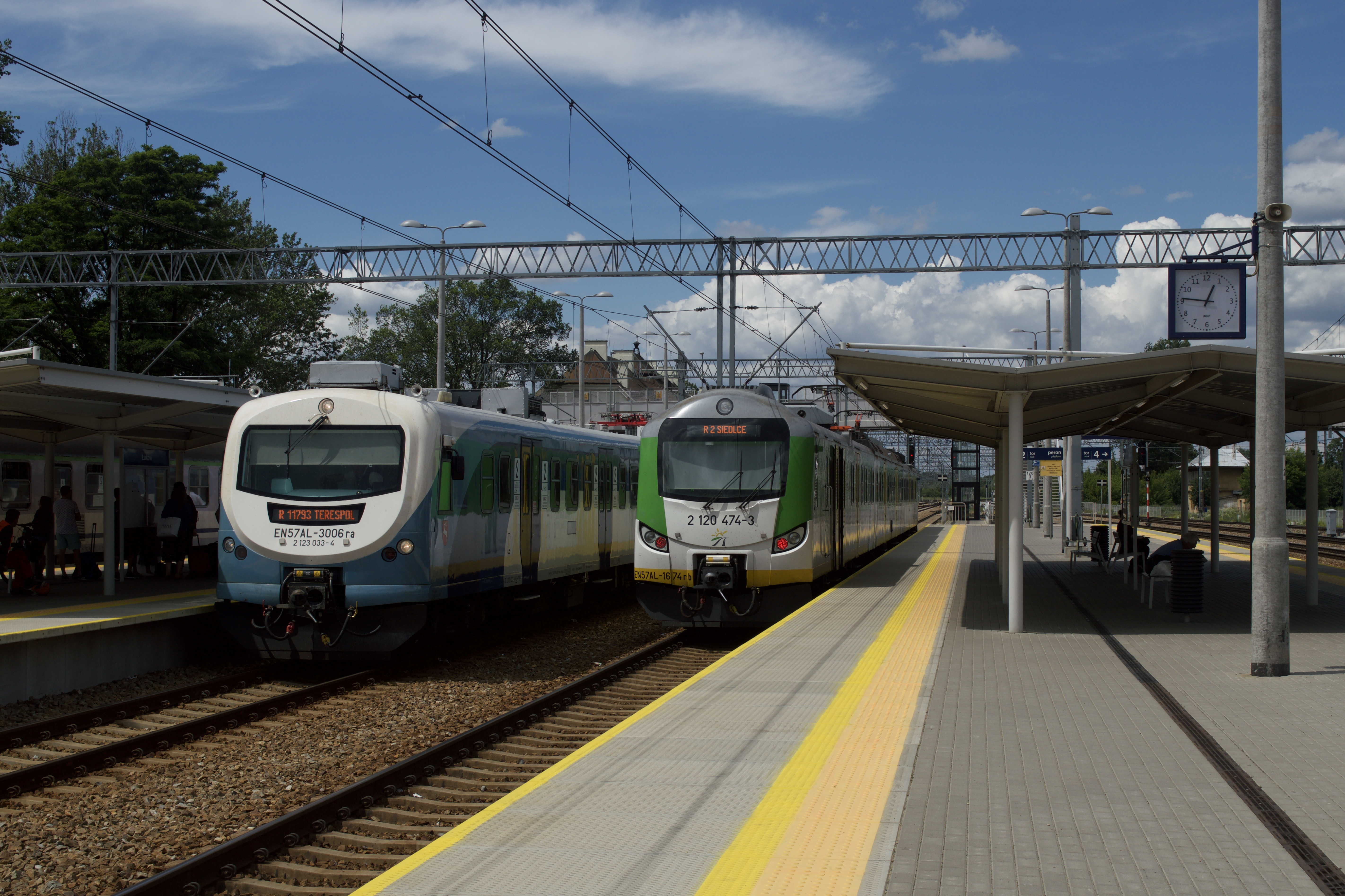 Rebuilt EN57s side-by-side at Łuków on 1 July 2017. To the left is one belonging to Polregio - EN57-3006 on train R11793, 12:18 Siedlce to Terespol. To the right is Koleje Mazowieckie set EN57-1674 on train KM11658 (route R2), 12:58 Łuków to Siedlce.